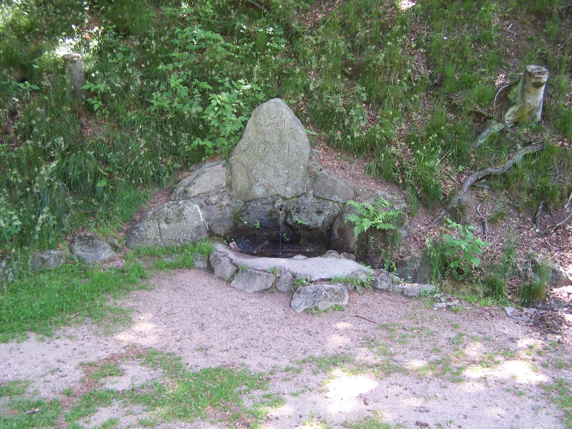 The Lutherborn near Steinbach.